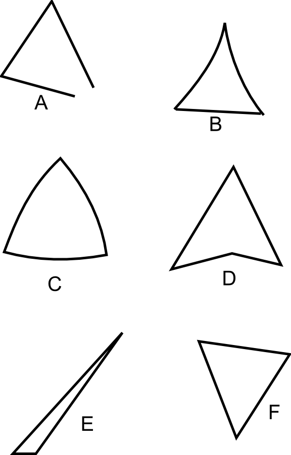 Examples of "triangles" that may or may not be recognized as such by children at the lowest van Hiele level. Most young children will say Shape E is too "skinny" to be a triangle.